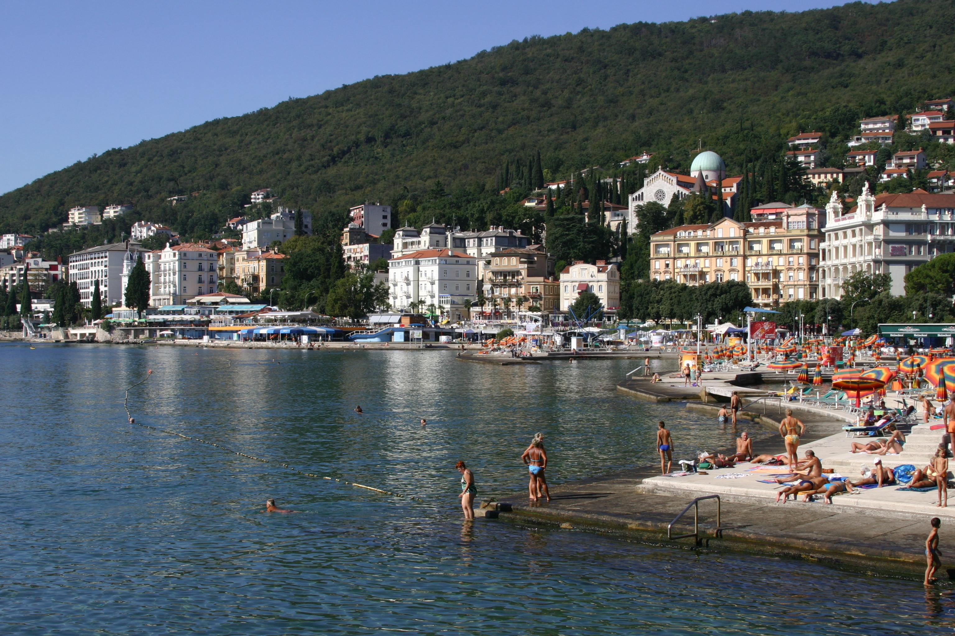 The croatian town of Opatija. I took this picture on the second of september 2006